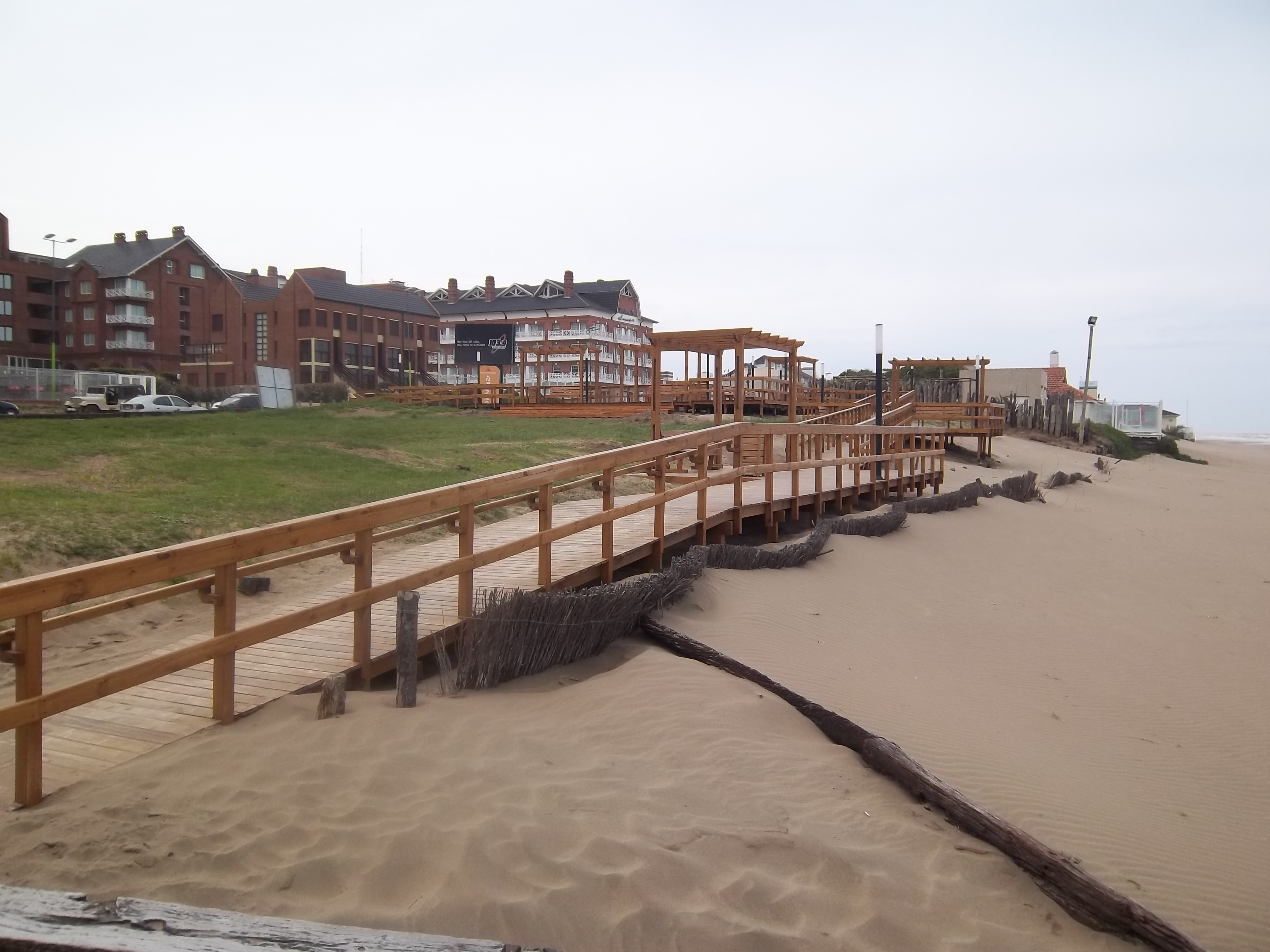 Rambla de madera en Pinamar, partido de Pinamar, provincia de Buenos Aires, Argentina.